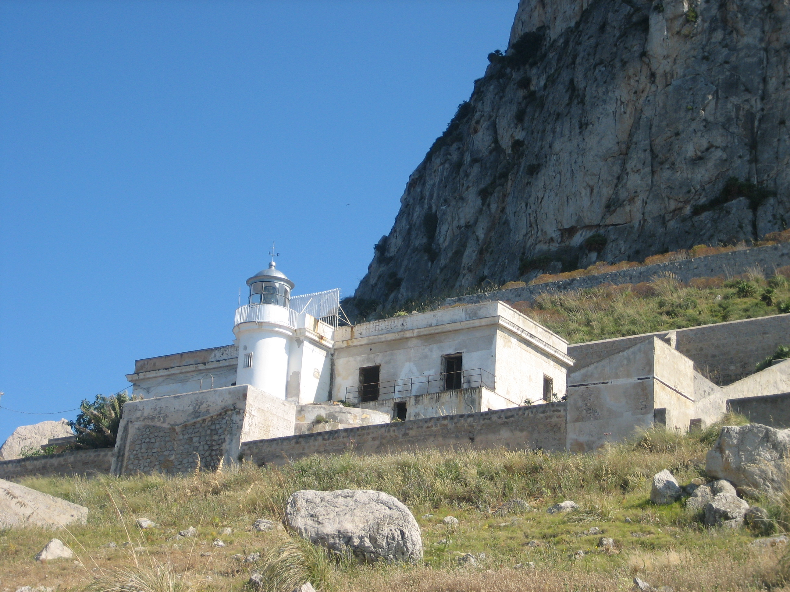 The picture shows the light house of the conservation area Capo Gallo at the end of the eastern coastal way.